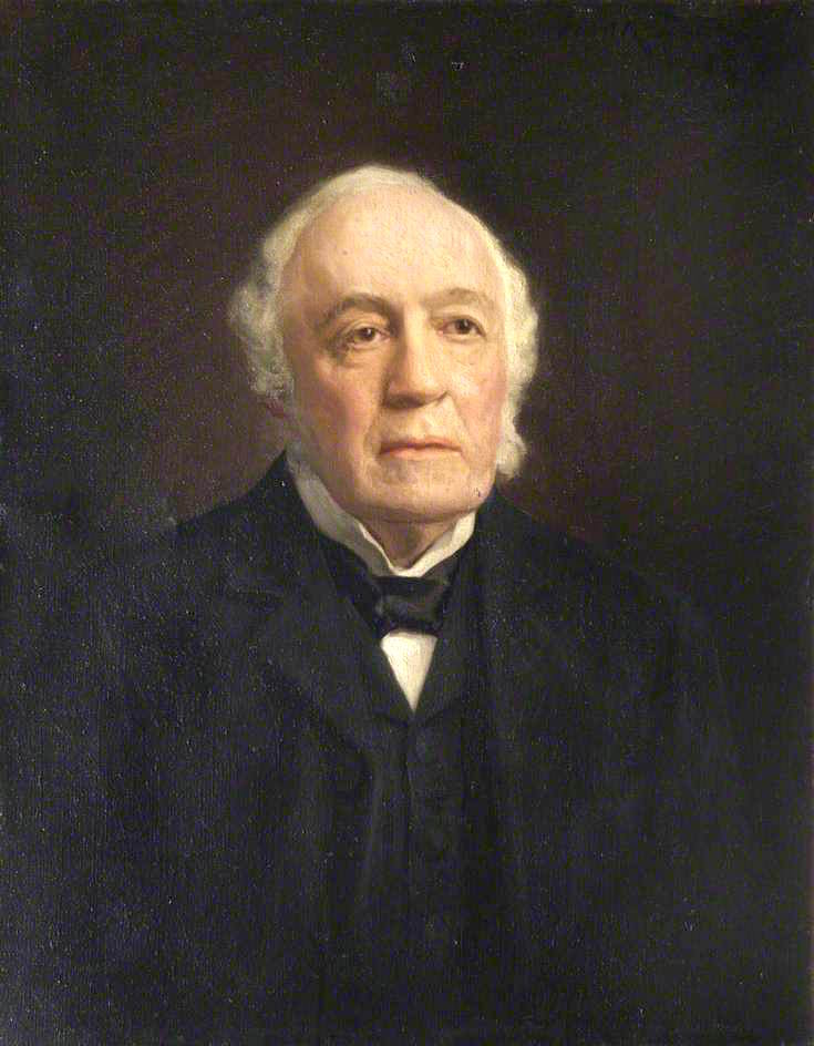 Judge Frederick Adolphus Philbrick (1835–1910), KC by Frank Daniell (1866–1932). The Library and Museum of Freemasonry. Date painted: c.1913. Oil on canvas, 74 x 62 cm